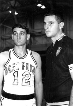 Bob Knight as coach at Army, with point guard and future Duke coach Mike Krzyzewski